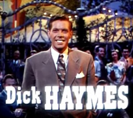 Cropped screenshot of Dick Haymes from the trailer for the film State Fair